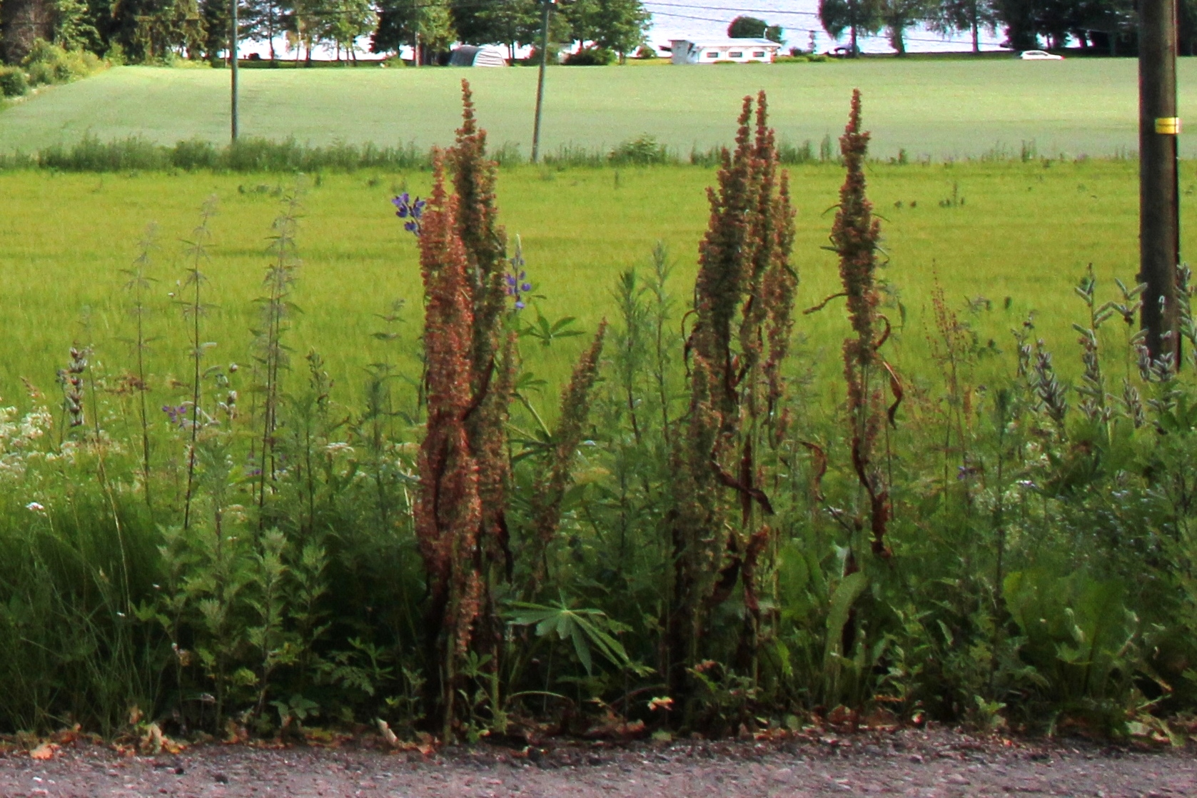 Rumex longifolius, commonly known as dooryard dock or northern dock, in Retlahti, Pusula, Lohja, Finland. In the beginning of July.